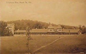 1910 postcard of Monte Ne, Arkansas showing Oklahoma Row